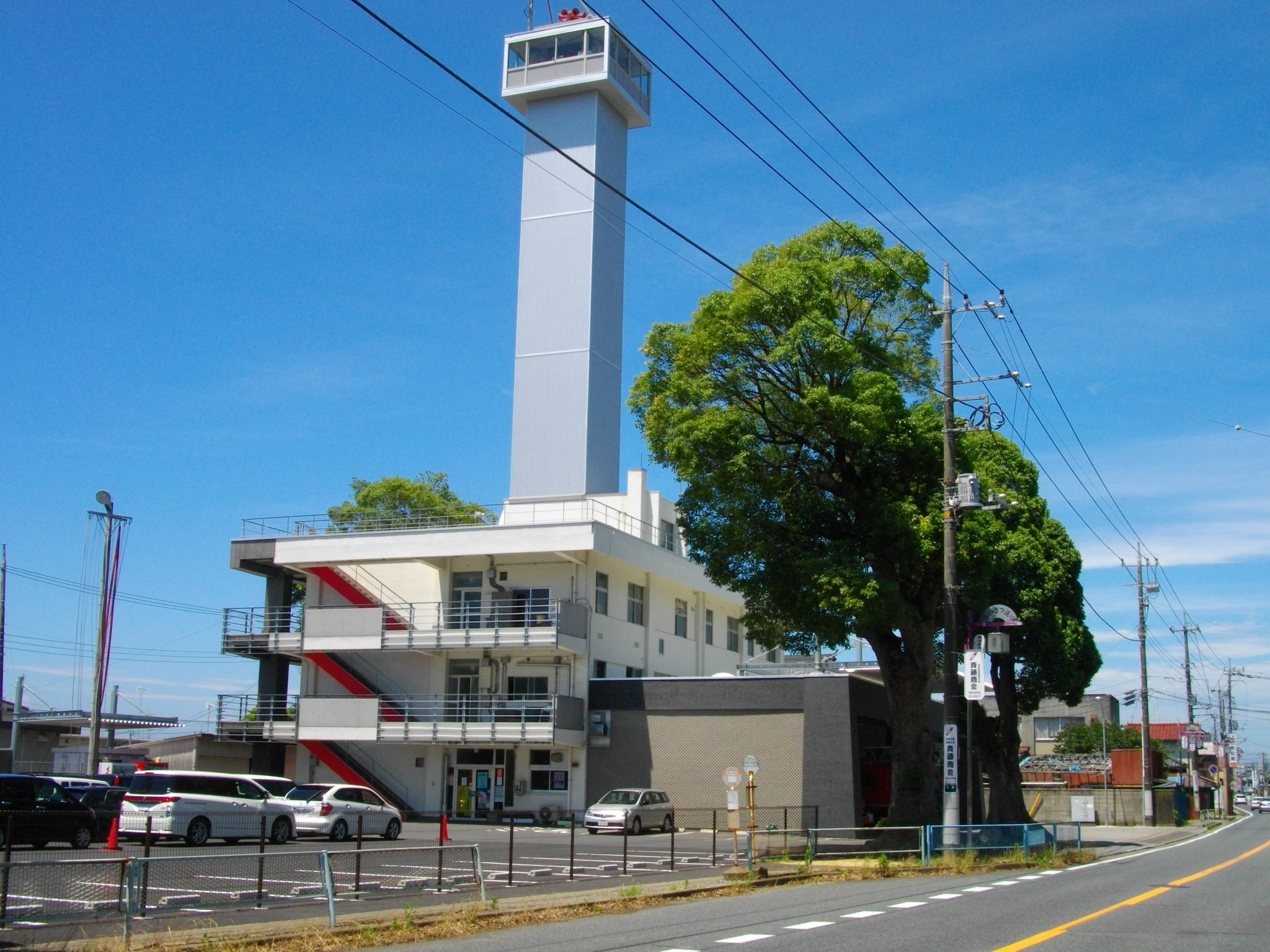 Chosei Large Area Fire Department